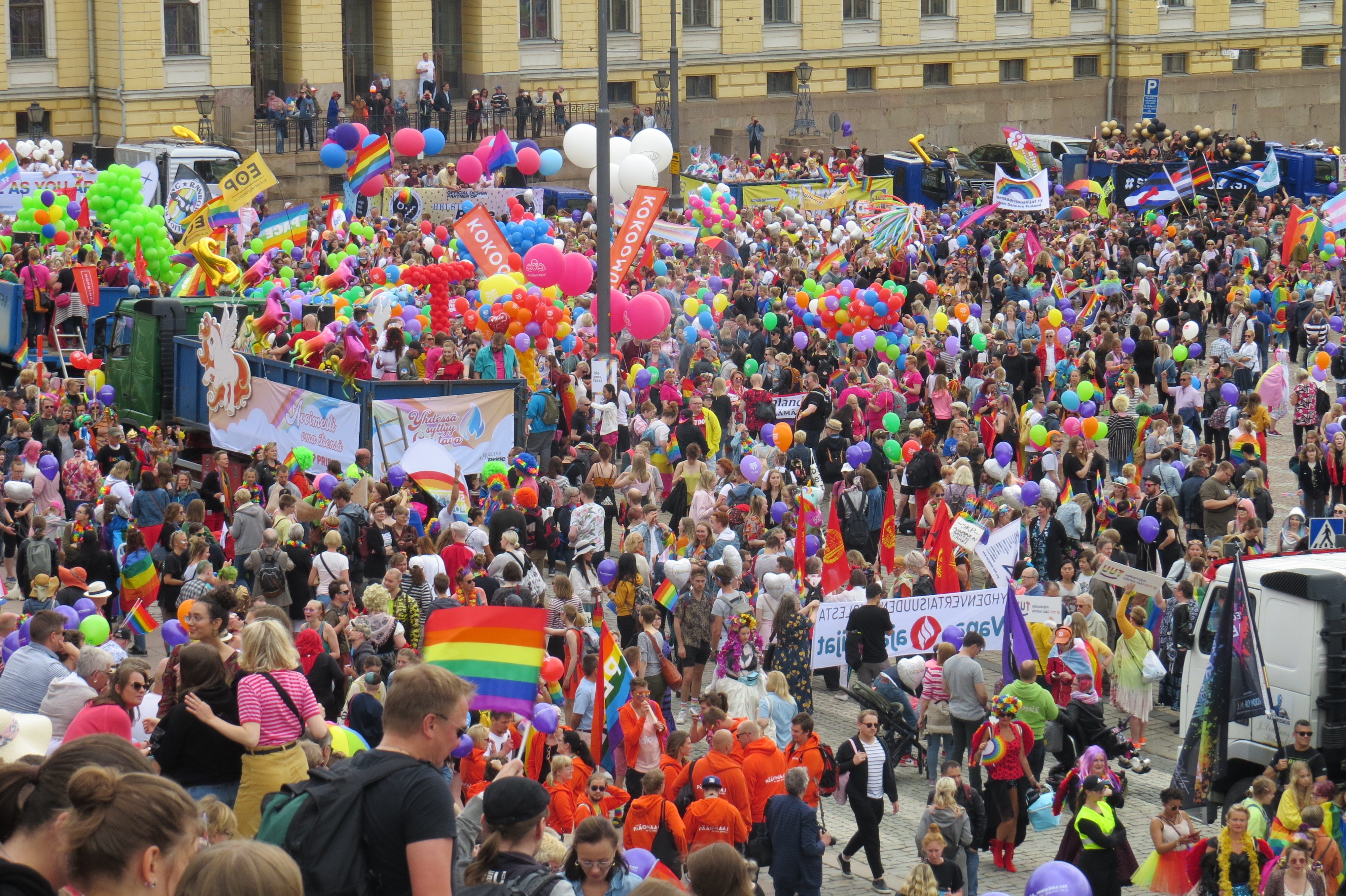 Helsinki Pride 2019 at Helsinki Senate Square